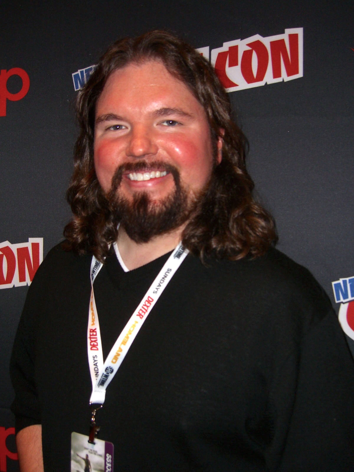 Filmmaker Marcus Dunstan on Day 4 of the 2012 New York Comic Con, Sunday October 14, 2012 at the Jacob K. Javits Convention Center in Manhattan. This photo was created by Luigi Novi. It is not in the public domain, and use of this file outside of the licensing terms is a copyright violation.